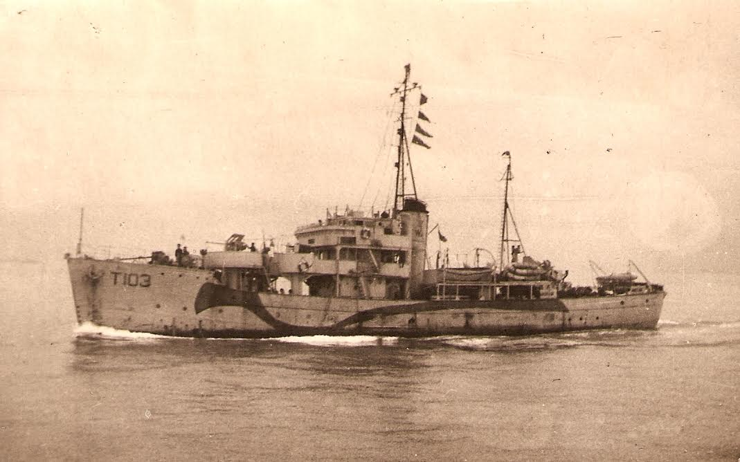 HMS Walnut, Tree Class Armed Trawler of the Royal Navy